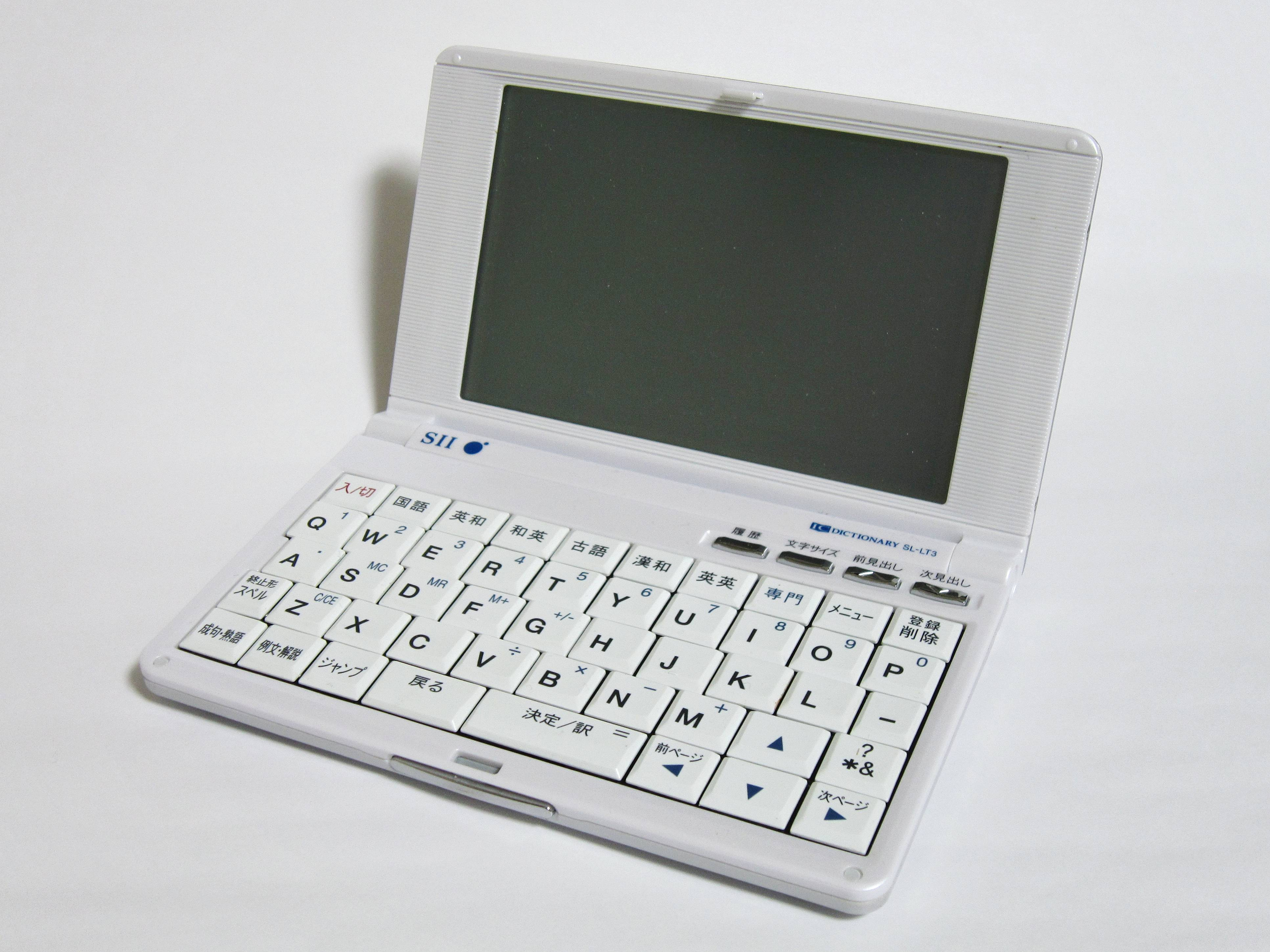 Seiko Instruments (SII) IC Dictionary SL-LT3.